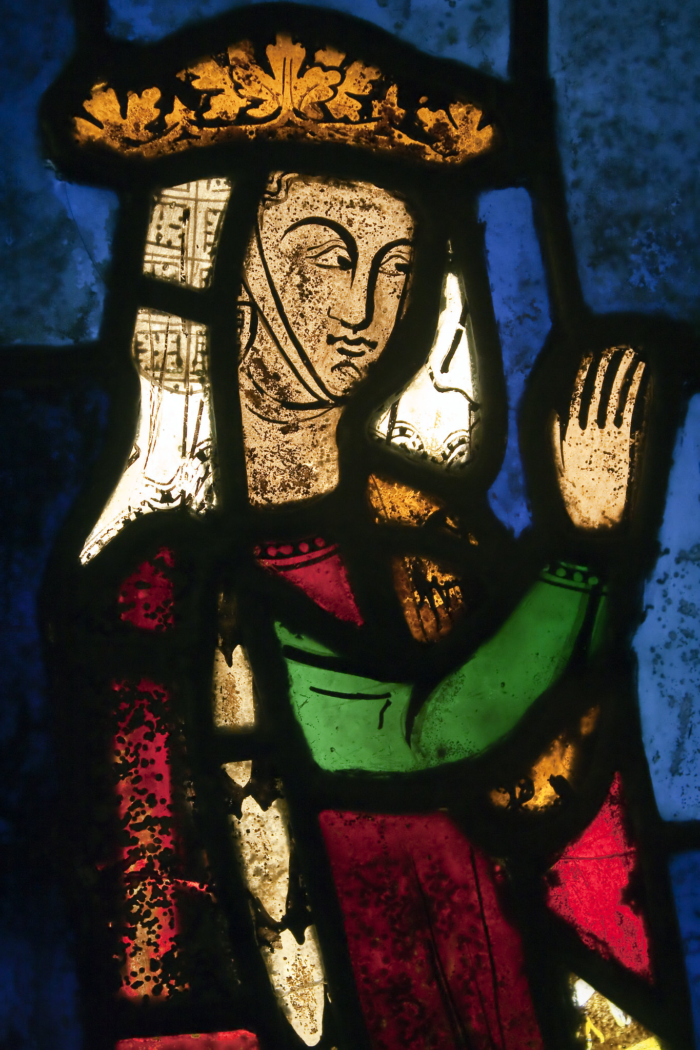 Medieval English stained glass window depicting the German queen Beatrice of Falkenburg.